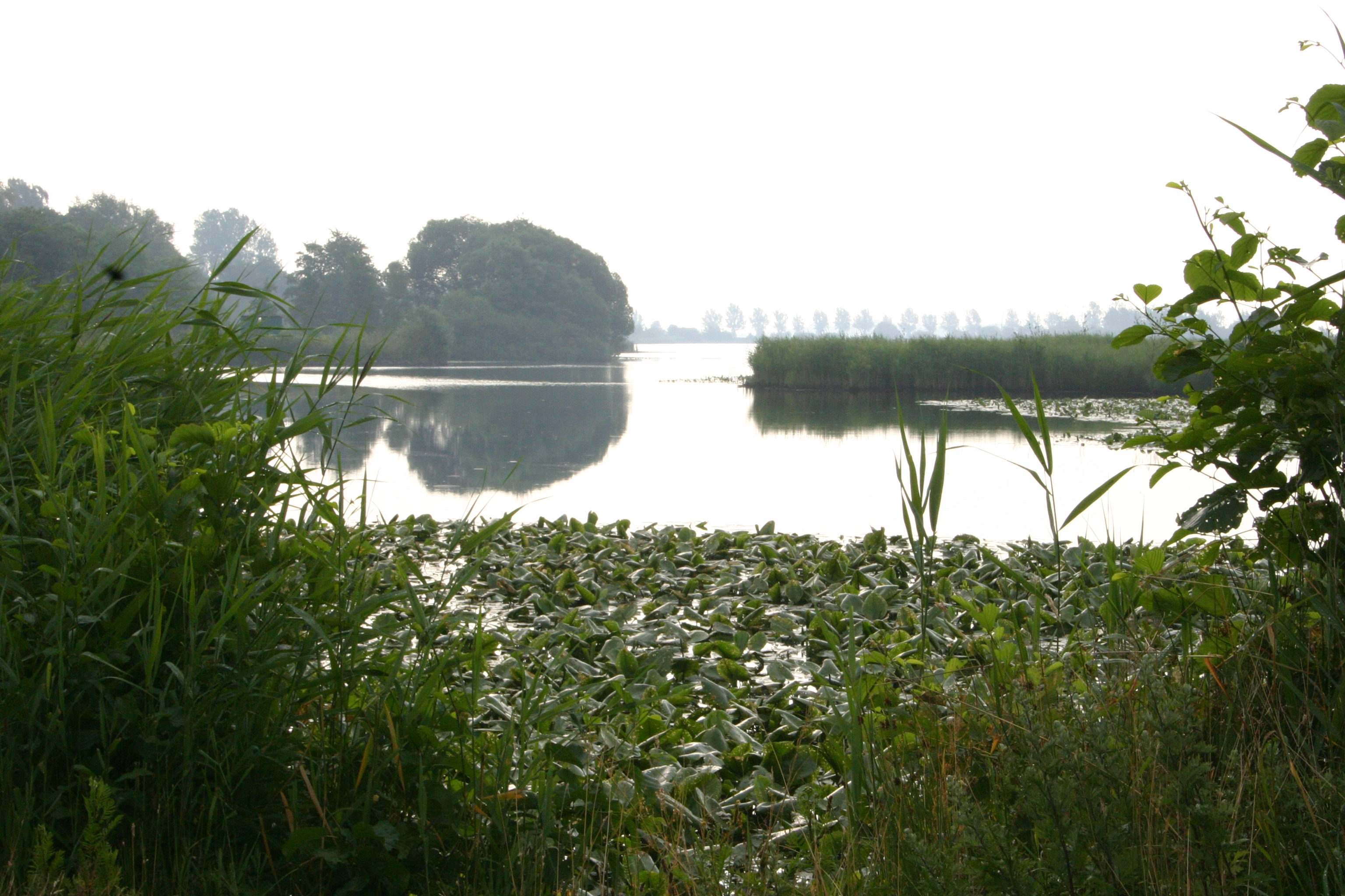 View from the west of the peat-fen lake of Sandwater, near Ihlow, in the district of Aurich, East Frisia, Lower Saxony, Germany